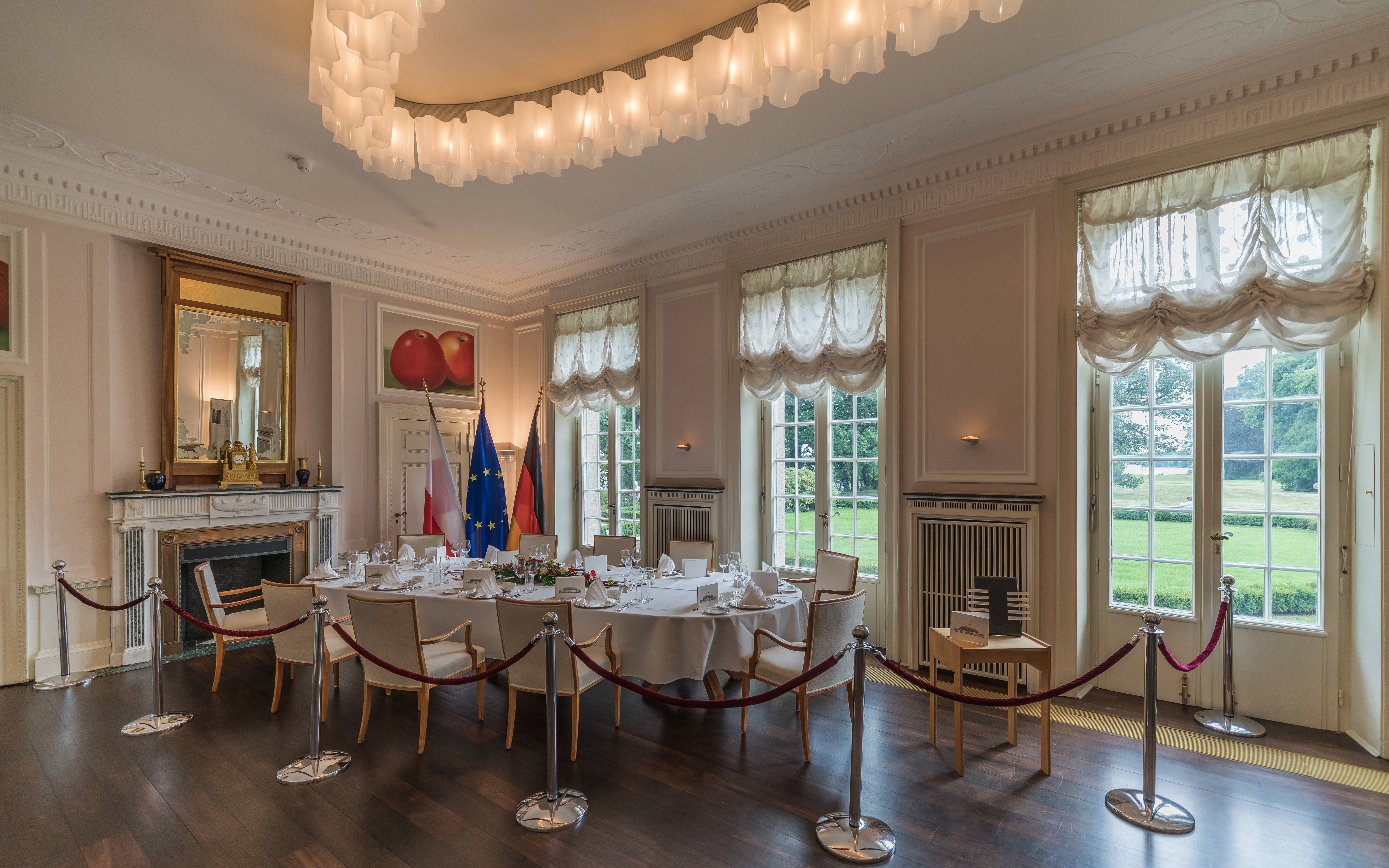 Borsig villa at Lake Tegel in Berlin, Germany